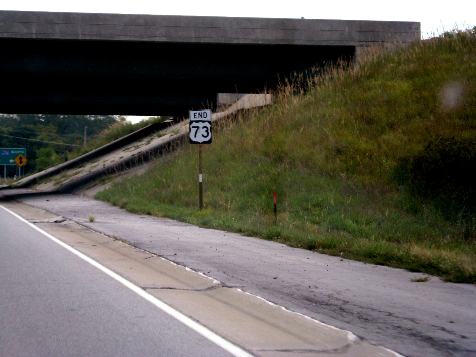 The eastern terminus of U.S. 73 at Interstate 435 (bridge in background) in Kansas City, Kansas. Color levels adjusted in GIMP.